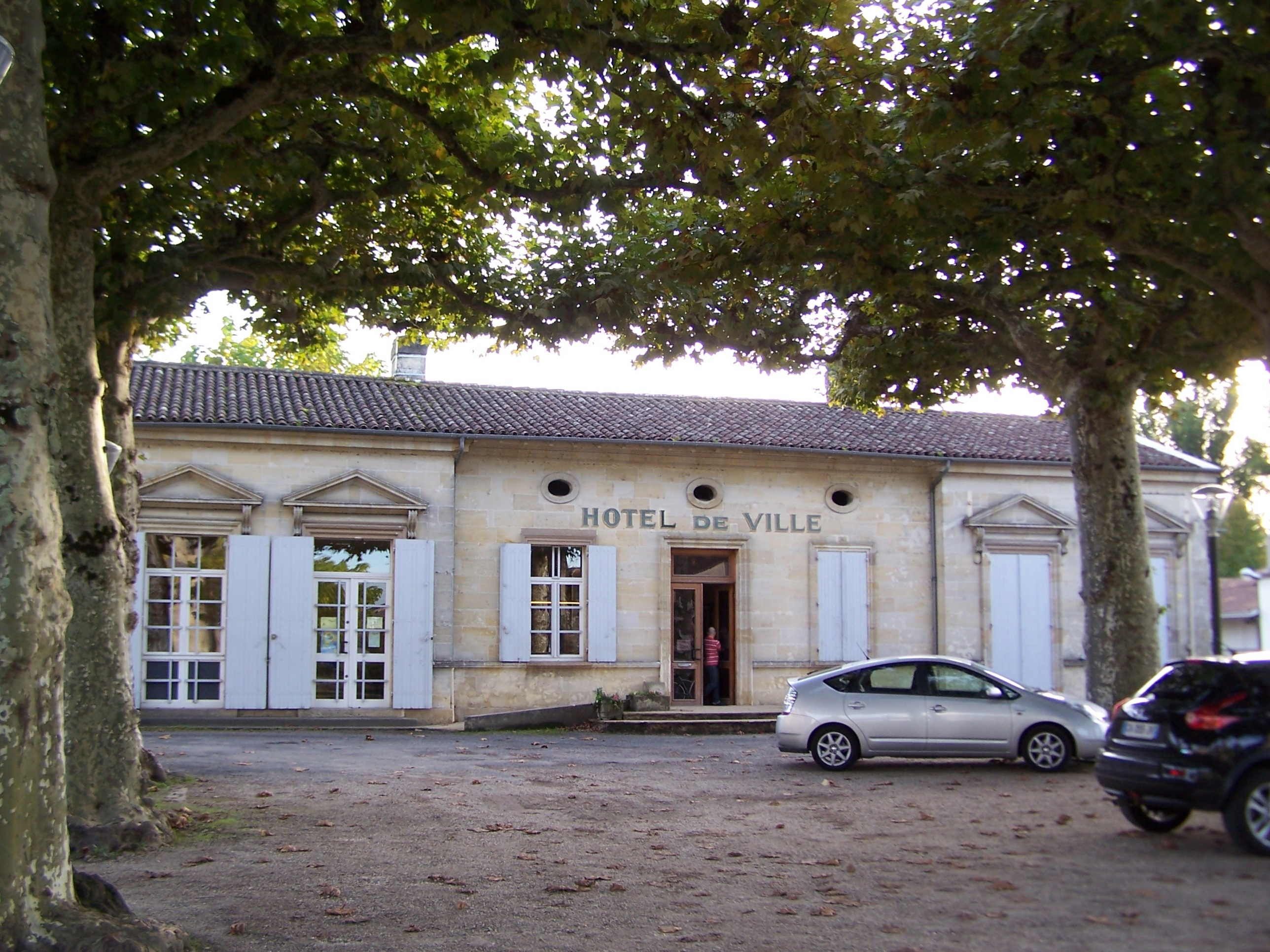 Town hall of Captieux (Gironde, France)